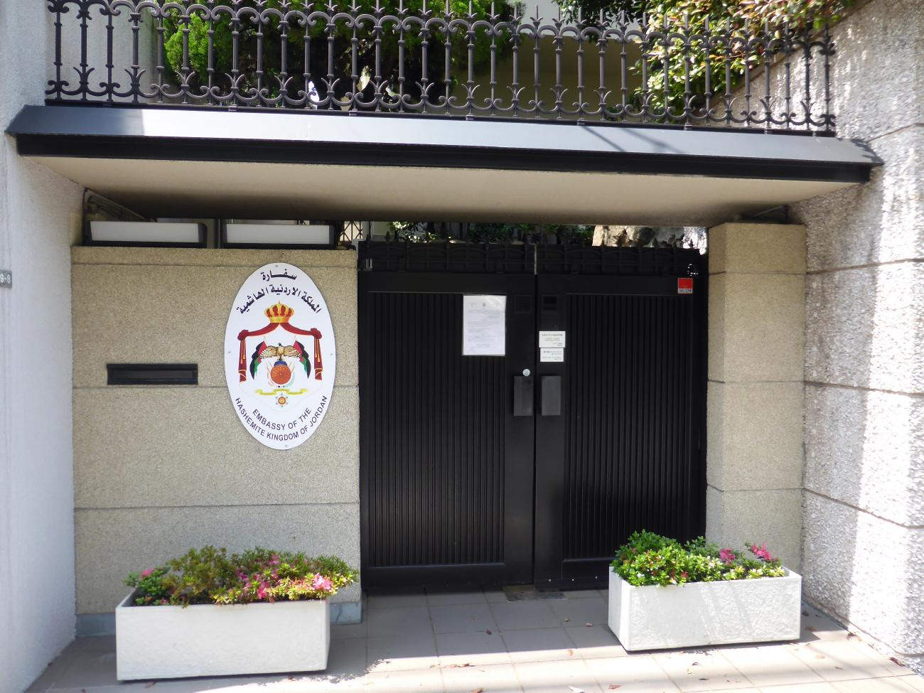 Main gate of the Embassy of Jordan in Japan